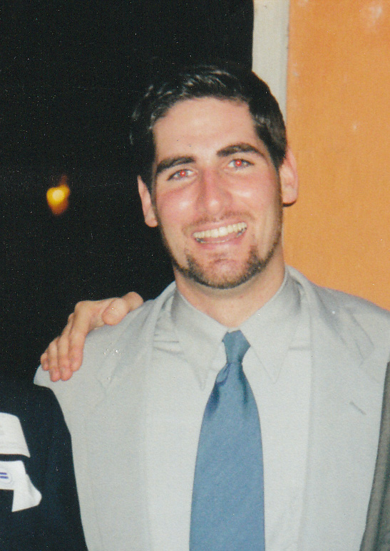 Gay Boy Scout James Dale, who took his battle to the United States Supreme Court.